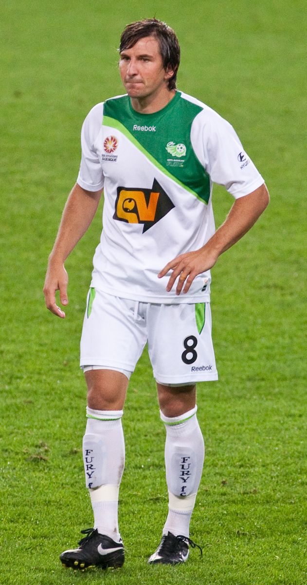 Shane Stefanutto playing for the North Queensland Fury in the A-League.